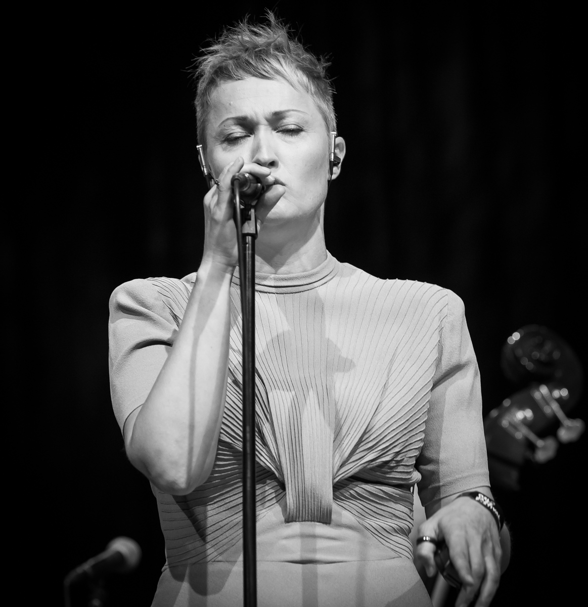 Live Maria Roggen performs with Come Shine and KORK at the stage of Sentralen. The concert was part of the Oslo Jazz Festival in Norway and took place on 17. August 2016. Lineup: Sondre Meisfjord (bass) Håkon Mjåset Johansen (drums) Erlend Skomsvoll (piano) Live Maria Roggen (vocal)